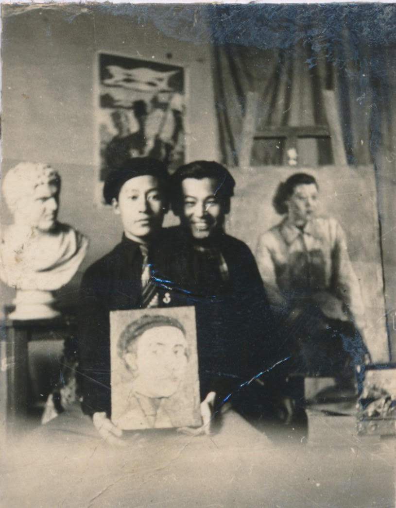 Korean War outburst on June 25 in 1950 when Park Seo-Bo was enjoying his freshman year at Hongik University, majoring in Oriental Painting. It was in 1952 that he came back to the temporary war-time school in Busan. He had to change his major to Western Painting because none of the professors of Oriental Painting hadn't come back to school. When the ceasefire was announced in 1953, his school moved back to Seoul. At that time the fine art department was located in Jongno. Park Seo-Bo poses with his friend from Sculpture major in an art room of Hongik University in 1953.